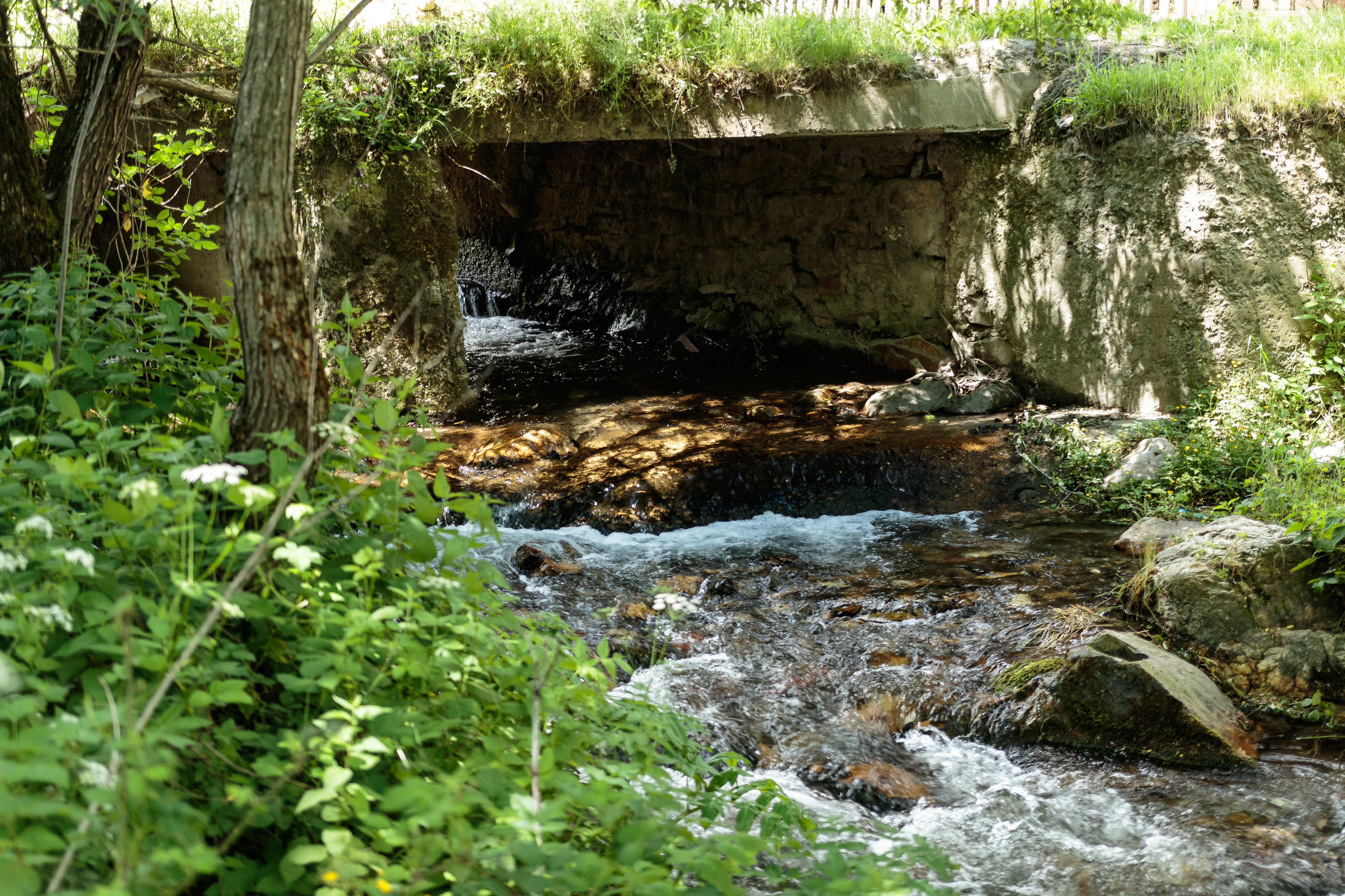 Malo Ilino River in the village Malo Ilino